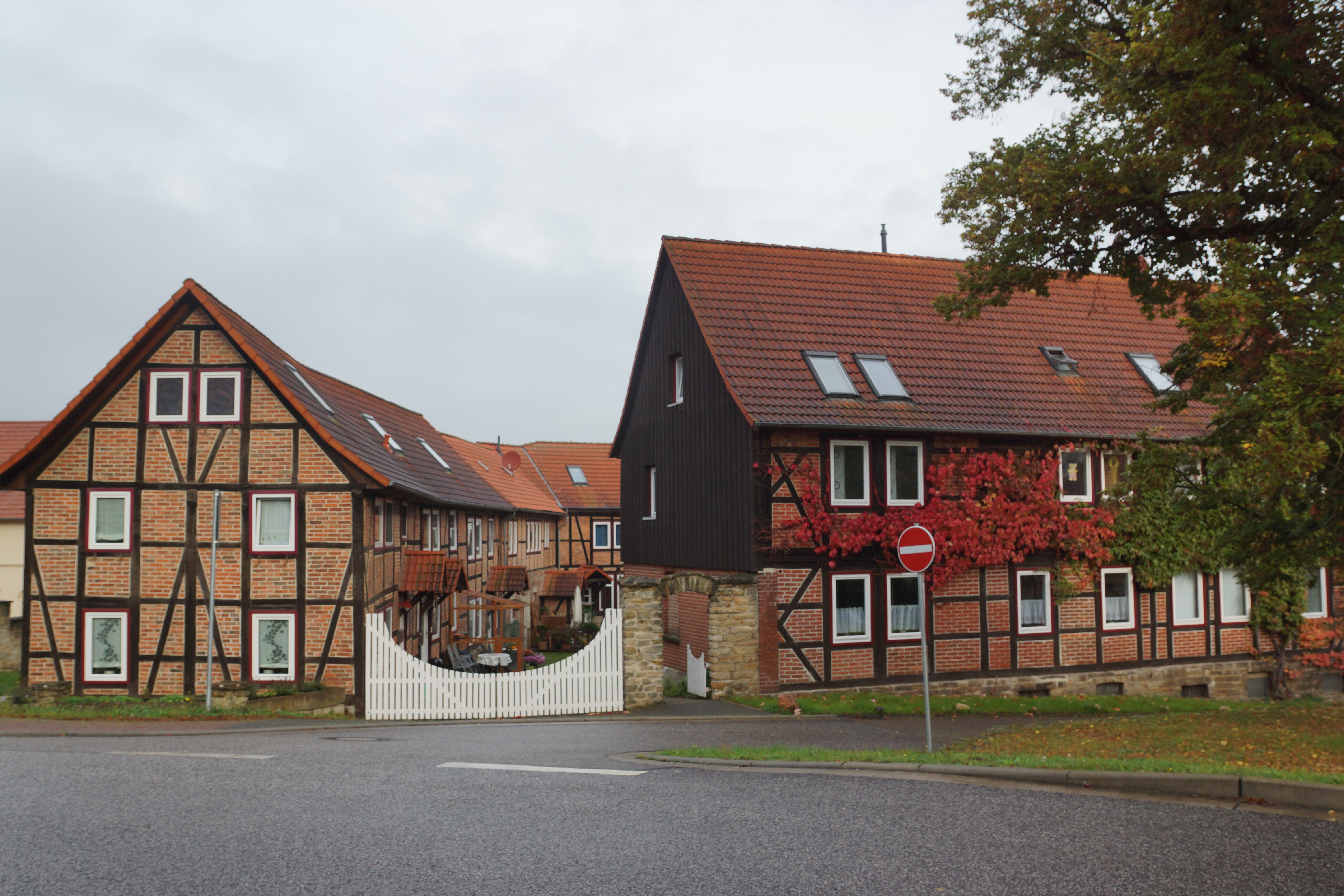 Beendorf, Germany: Timber frame houses in the Mittelstrasse